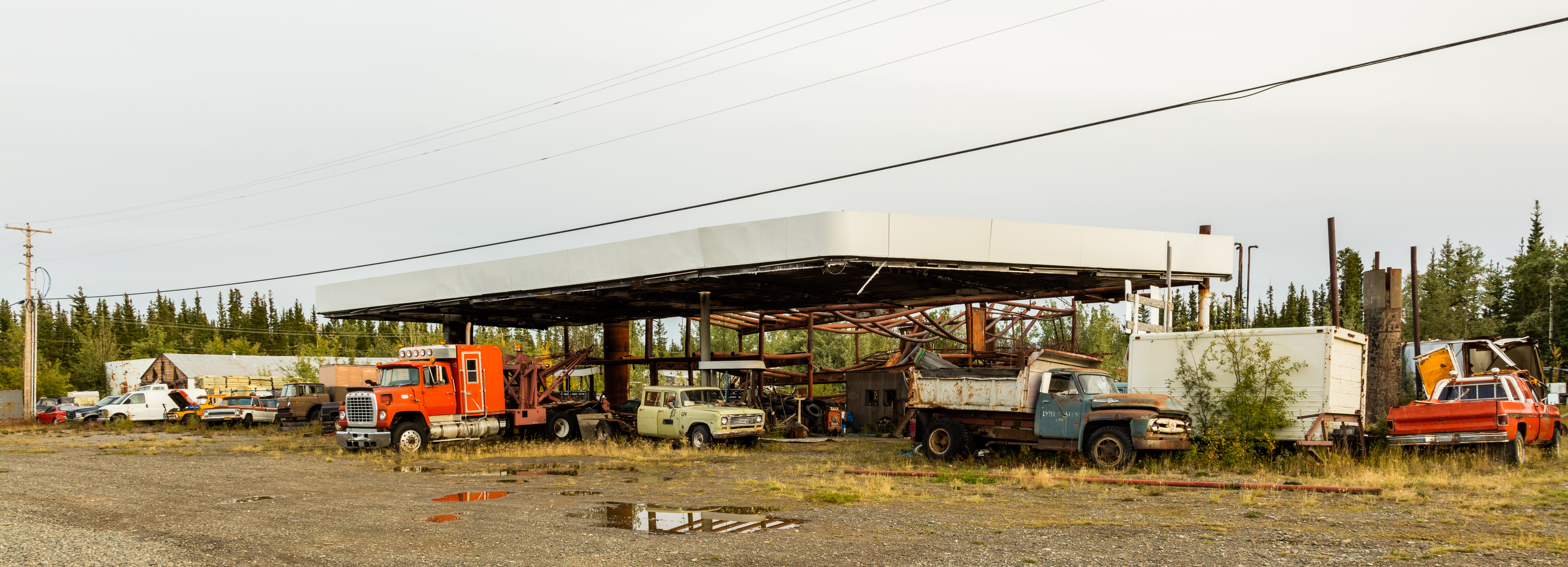 Scrap metal in Tok, Alaska, USA